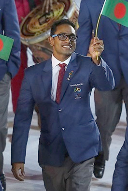 2016 Summer Olympics opening ceremony. Bangladesh team.